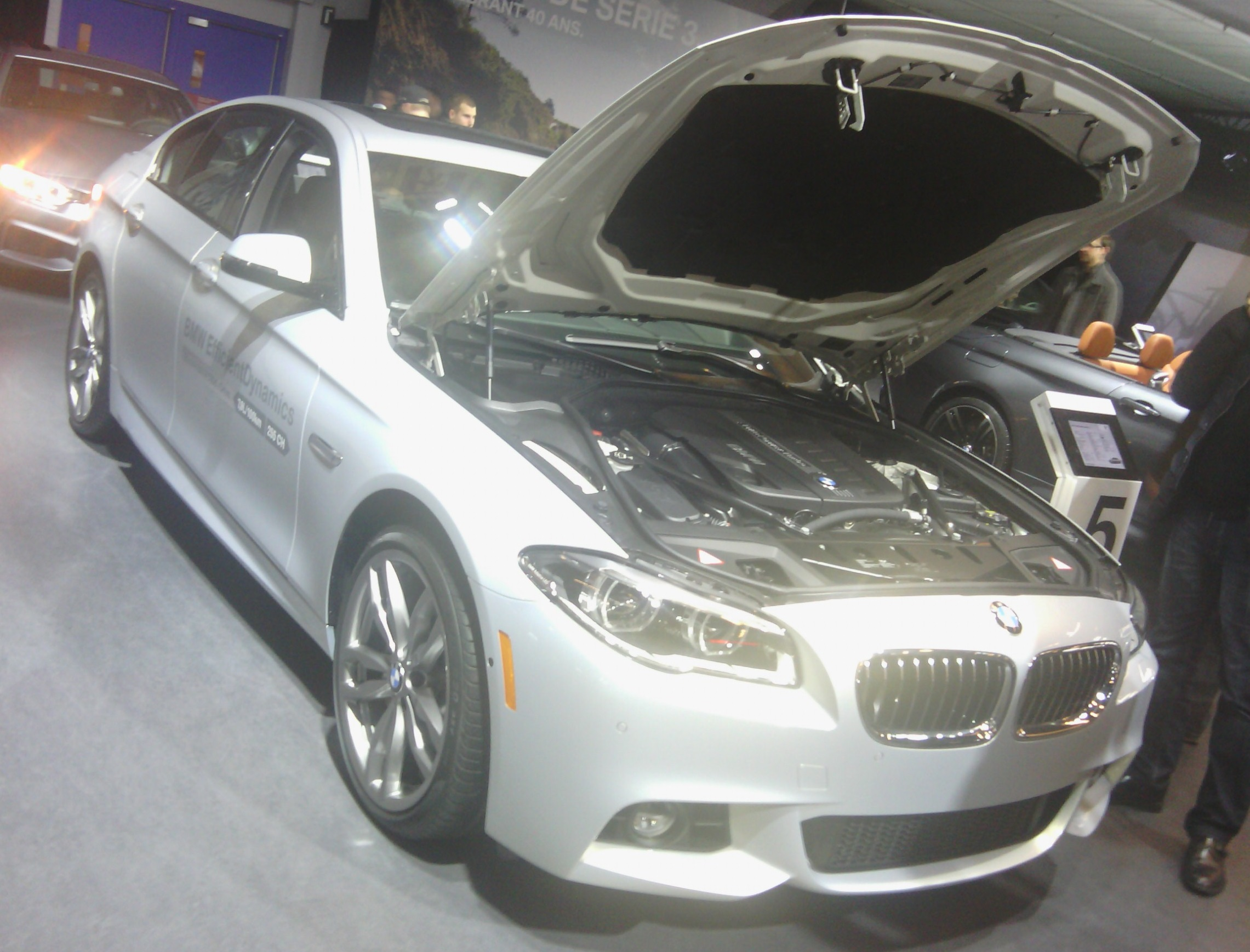 2015 BMW 5-Series photographed in Montreal, Quebec, Canada at the 2015 Montreal International Auto Show.